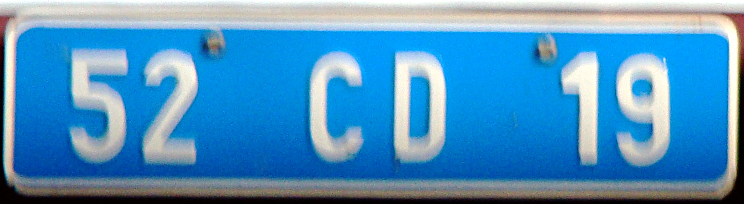 The photo is of a diplomatic registration plate in India. 52 = The Netherlands